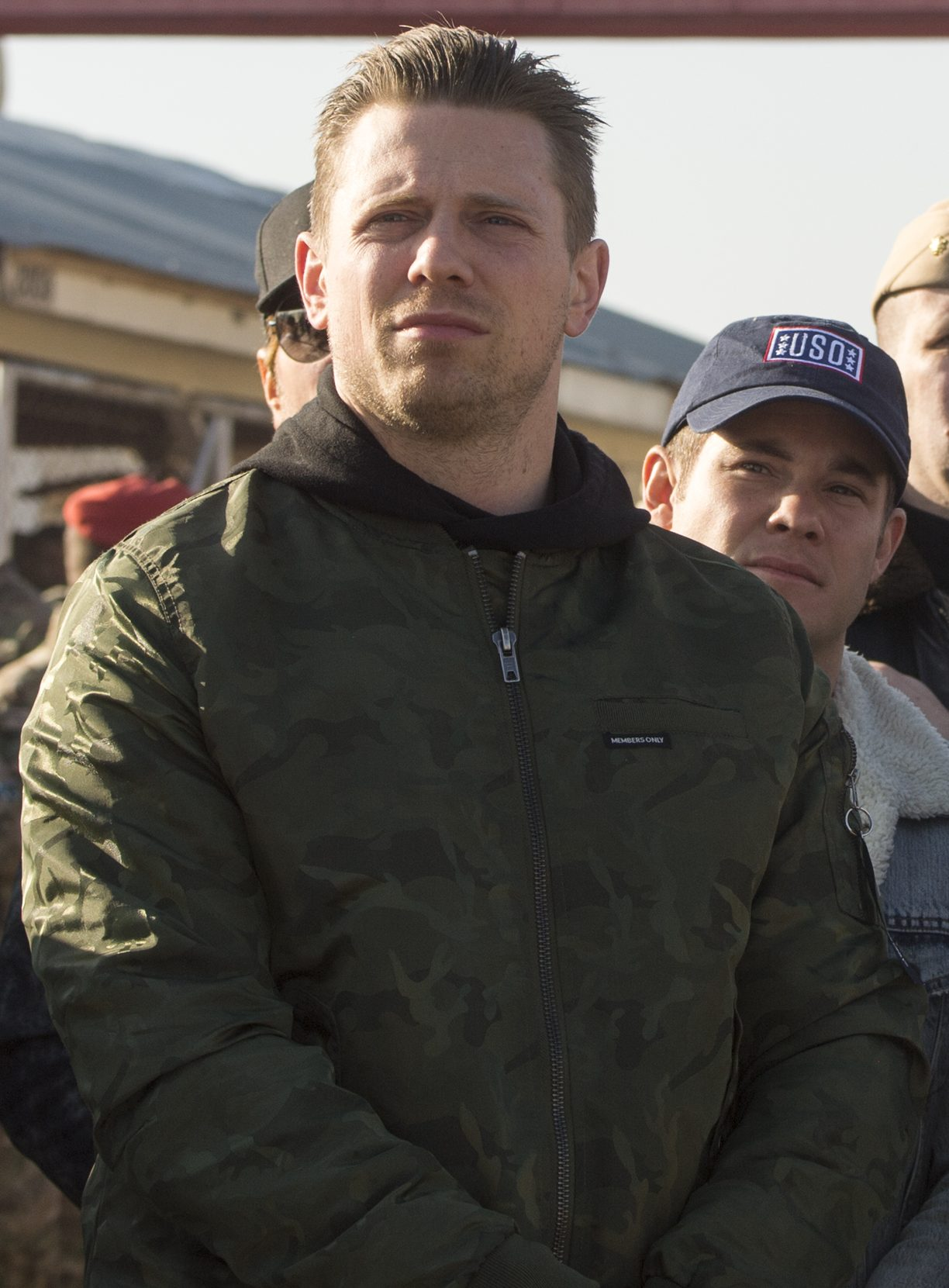 WWE Superstar "the Miz," Chef Robert Irvine, and comedian Adam Devine arrive at Operating Base Fenty, Dec. 24, 2017. Dunford and Troxell, along with USO entertainers, visited service members who are deployed during the holidays. This year’s entertainers are Chef Robert Irvine, wrestler Gail Kim, comedian Iliza Shlesinger, actor Adam Devine, country musician Jerrod Niemann, and WWE Superstars “The Miz” and Alicia Fox. (DoD photo by Navy Petty Officer 1st Class Dominique A. Pineiro/Released)